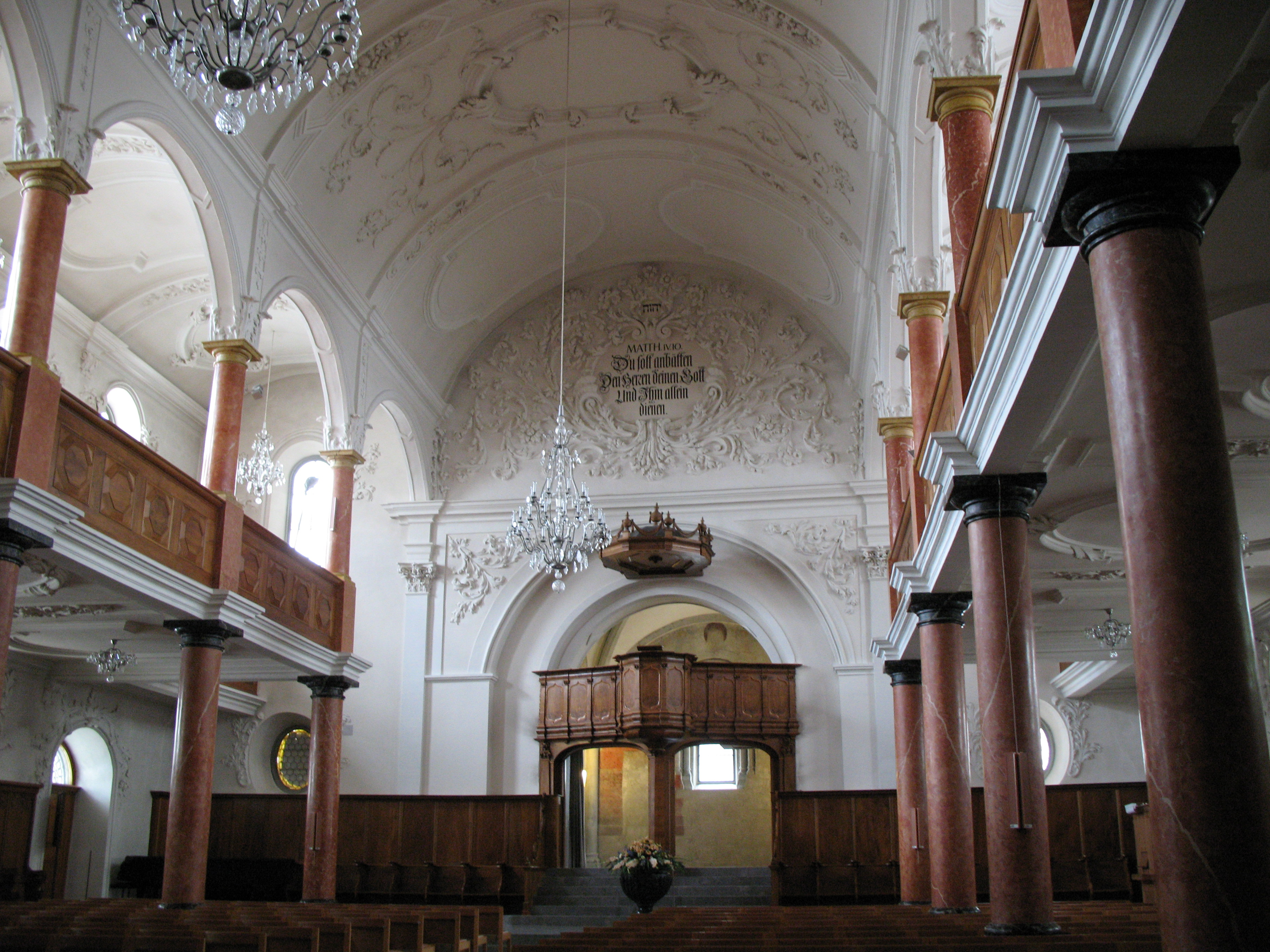 St. Peter's Church, Zürich, Switzerland